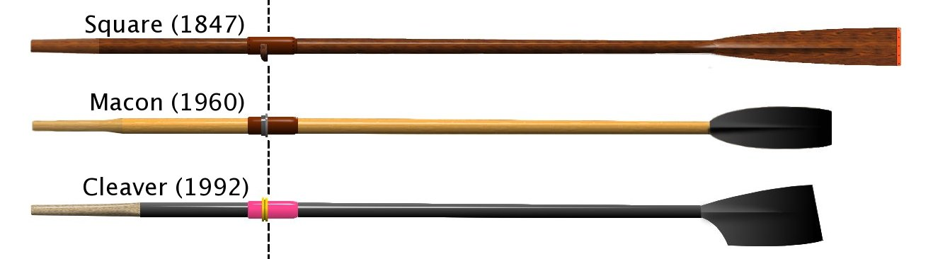 Image created by Yeti Hunter using GIMP 2.2, to illustrate the evolution in blade design as described in Oar (sport rowing)